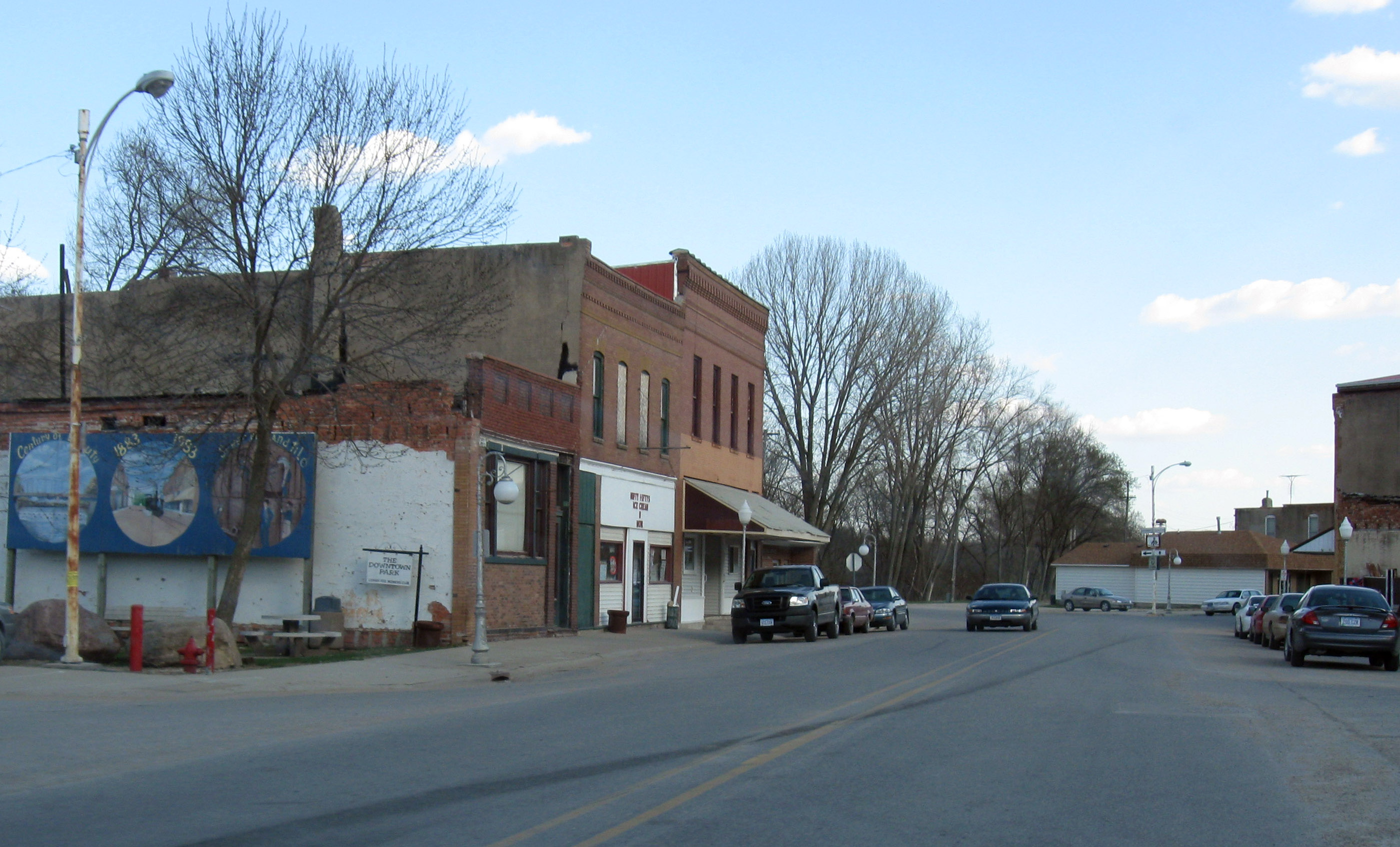 Lehigh, Iowa Bill Whittaker (talk) 16:58, 23 April 2009 (UTC)